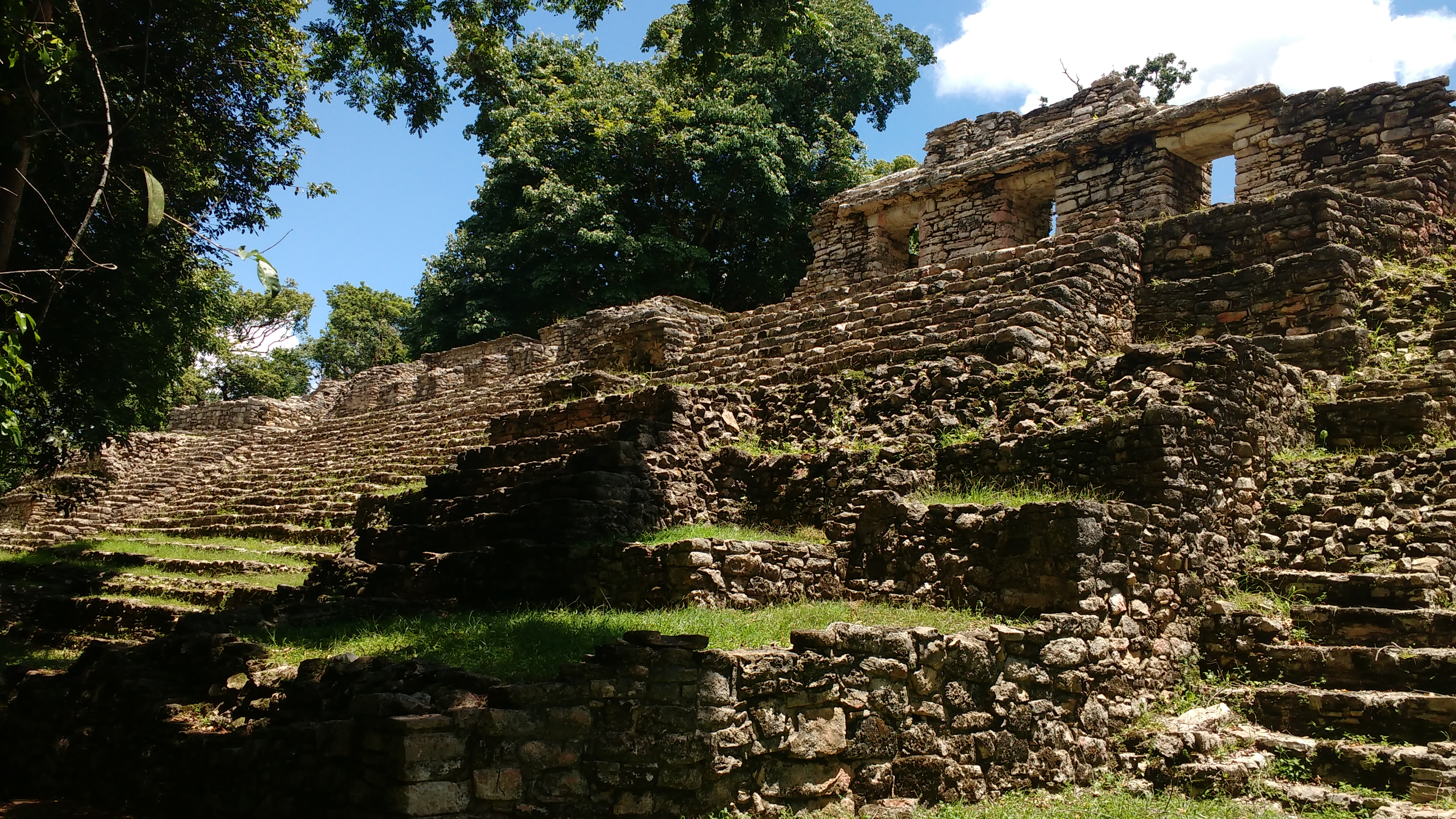 Photo taken in the Archaeological Zone of Yaxchilan, in the municipality of Ocosingo, Chiapas, Mexico.